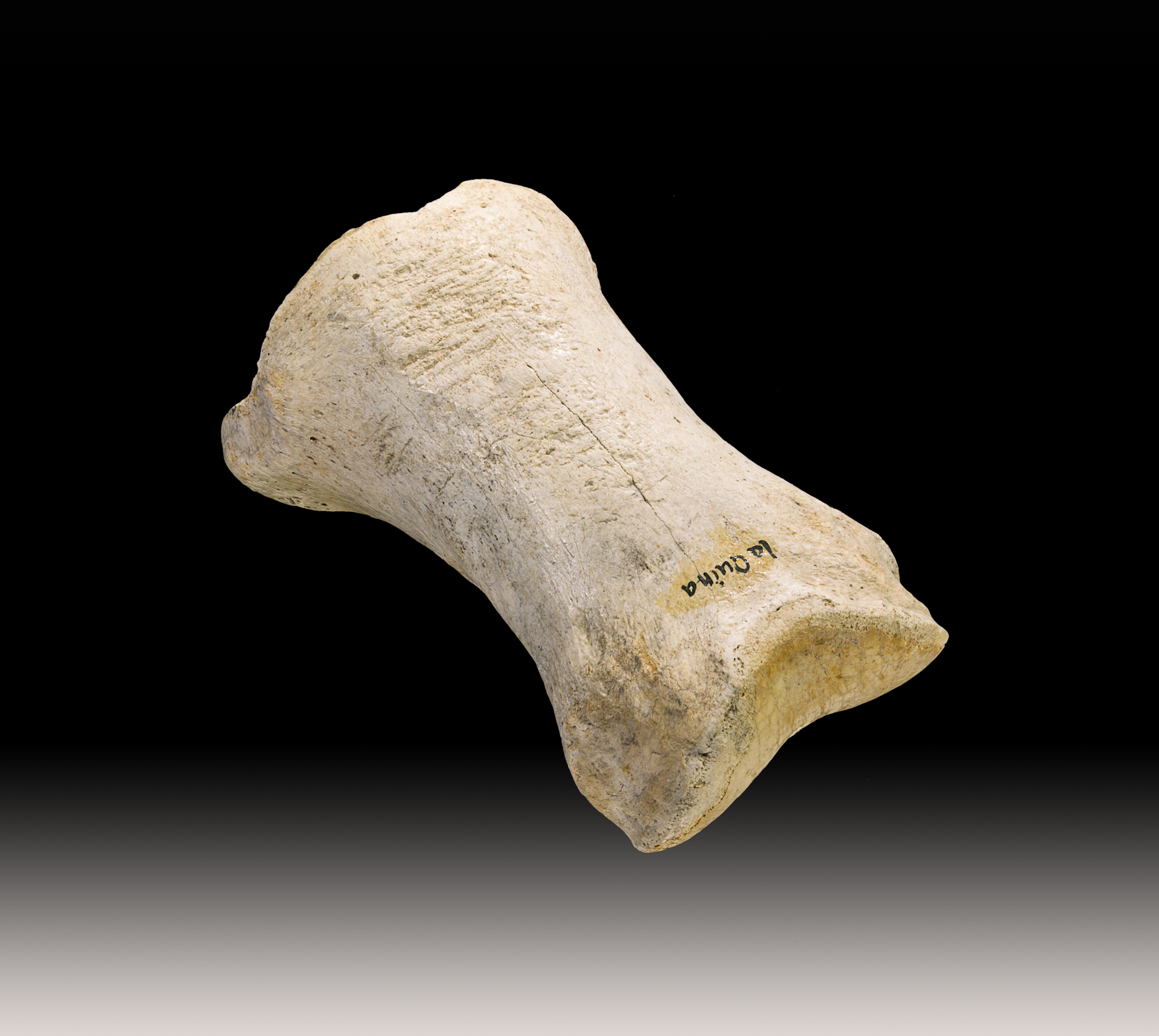 Retoucher in bone, on phalanx of equine. Stage : Middle Paleolithic (Quina Mousterian) (to – 300 000 to - 30 000 Before the Current Era) Locality : La Quina (fr), Gardes-le-Pontaroux, Charente, France Former collection of Léon Henri-Martin (1864 - 1936)) Muséum of Toulouse MHNT.PRE.2009.0.206.3 Size : 89x58x38 mm